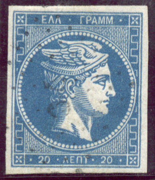 Greek large Hermes head stamp, Athens issue, Scott Cat. no. 20 (1862-1867).